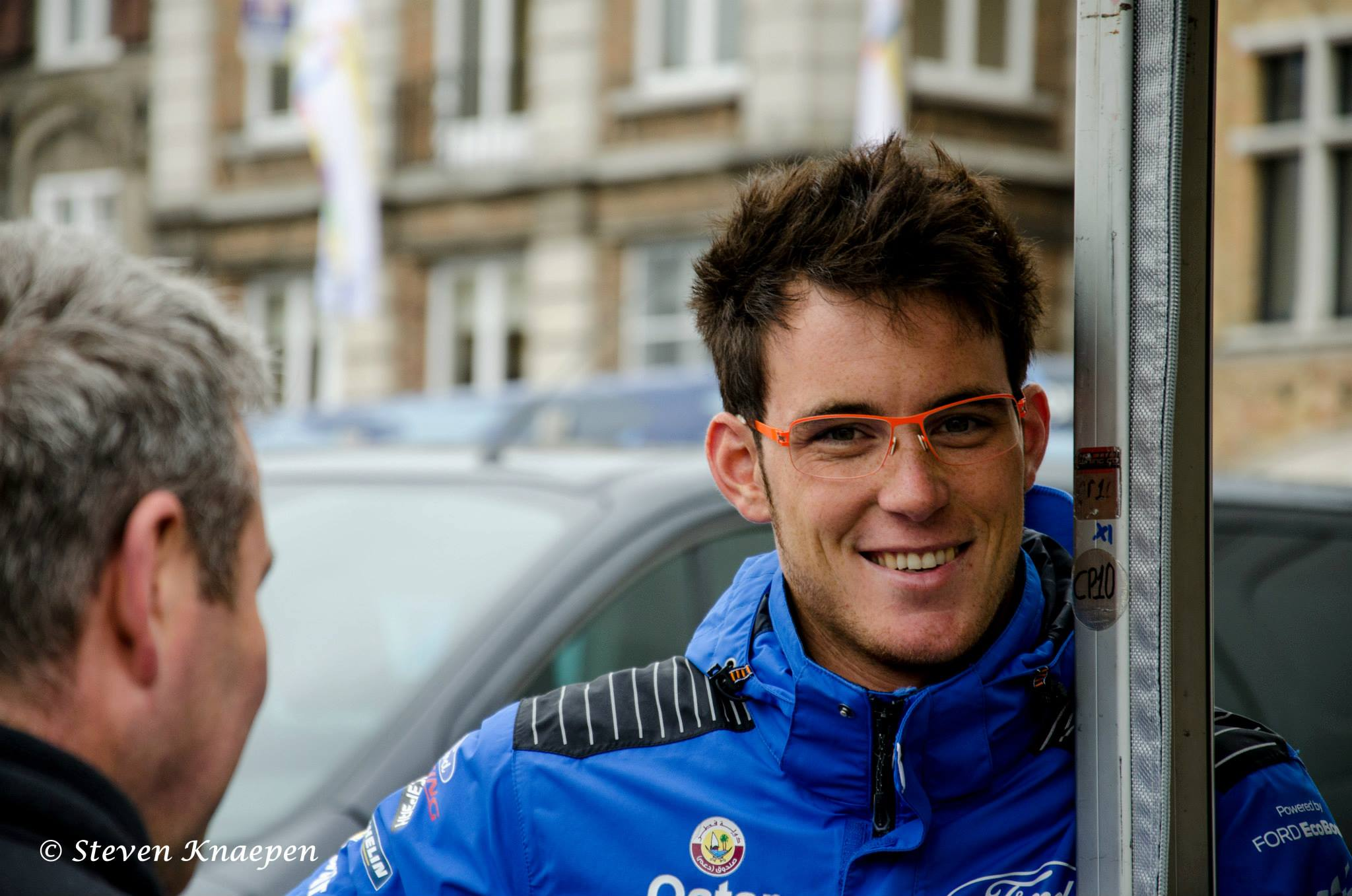 Rally Sweden 2014 Motorsport,Rally,Rally Sweden,Rallye,Rallye Schweden,Thierry Neuville